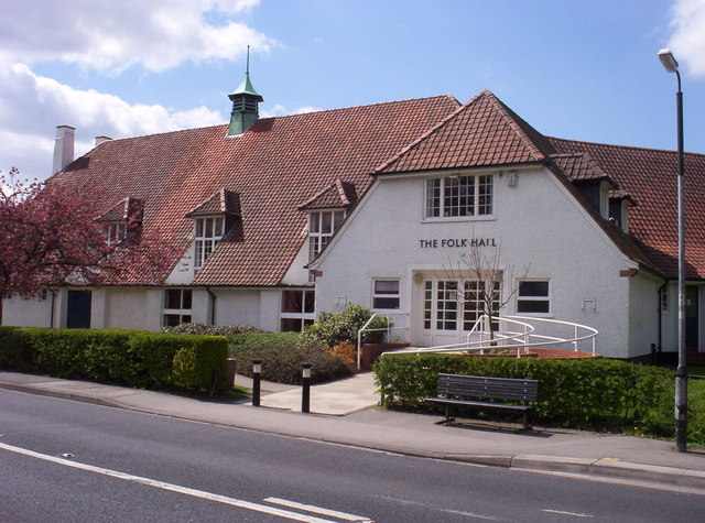 The Folk Hall. The Folk Hall in New Earswick was originally built in 1907. It was enlarged in 1935 and was subject to modernisation in 1968, 1984 and 1998. It caters for music, drama, public meetings, lectures and many other community-based activities.